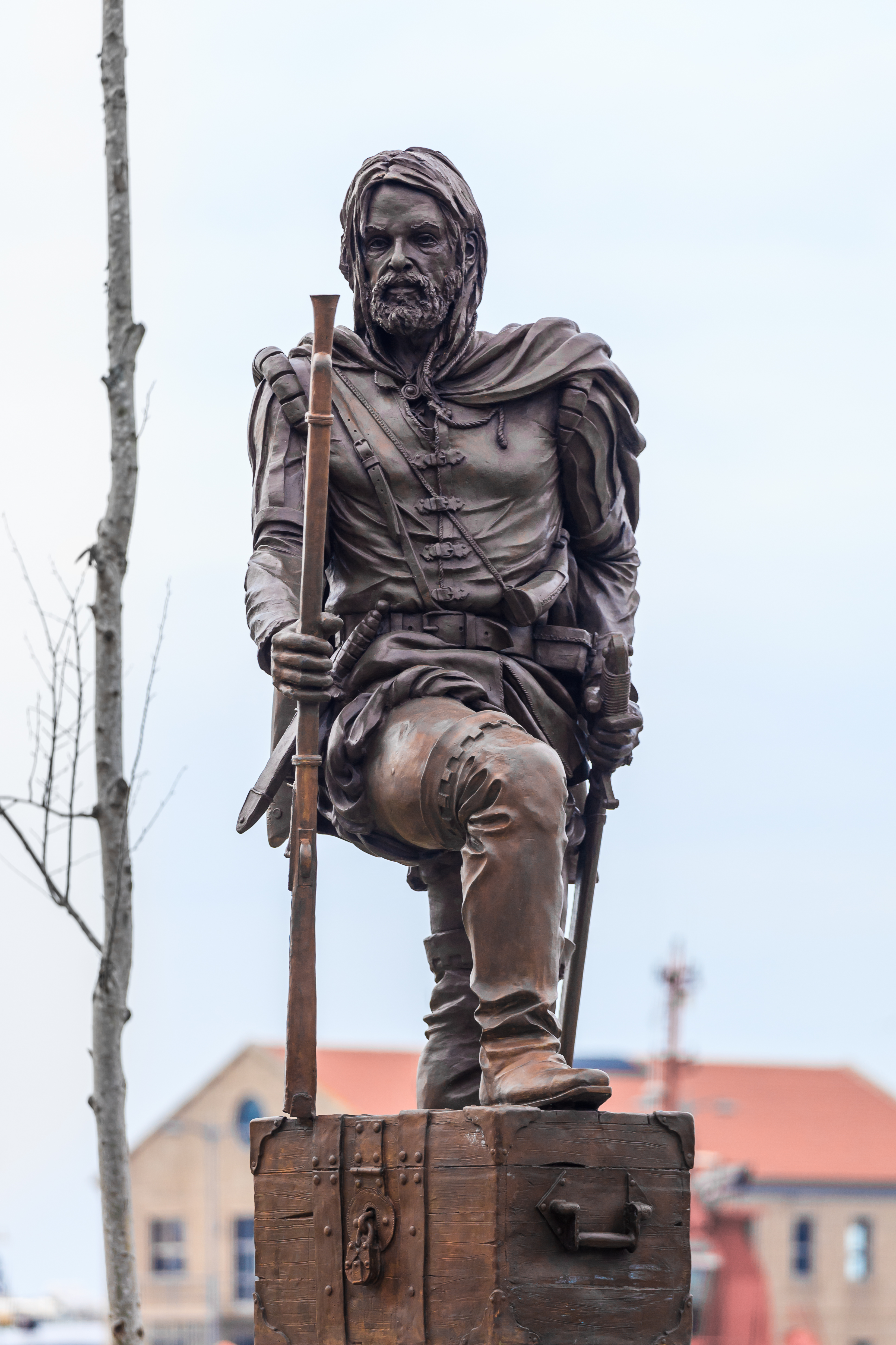 Statue of Gonzalo de Vigo by José Molares, Vigo, Galicia (Spain).